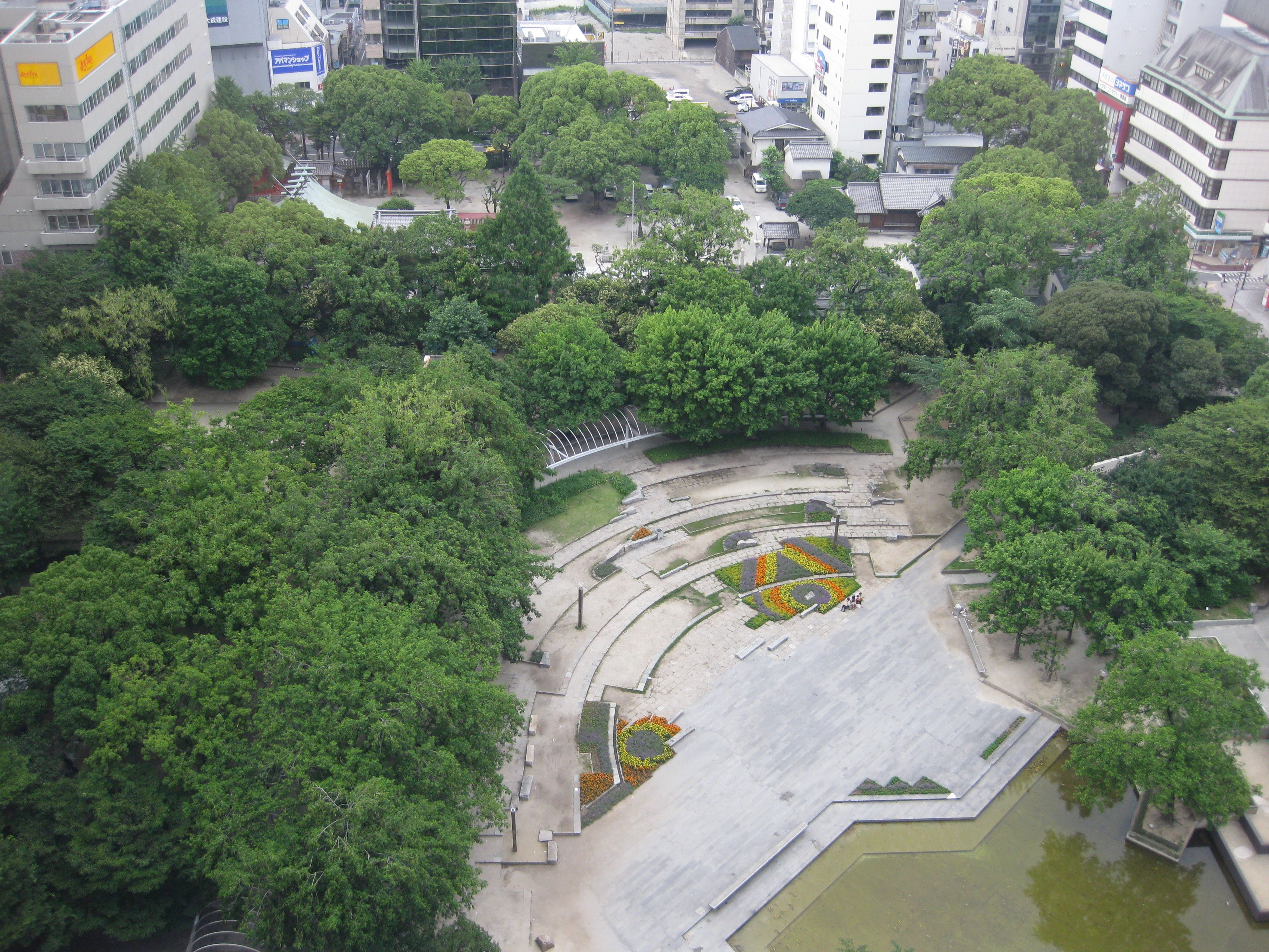 Kego Shrine and Kego Park in Fukuoka, Japan